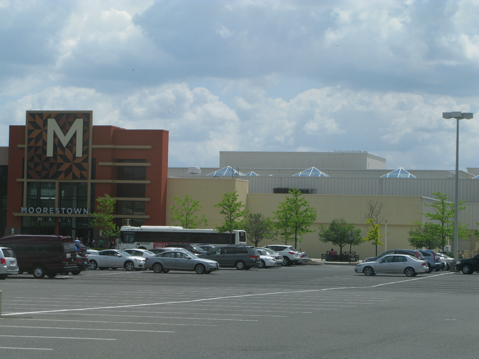 Revitalized entrance at Moorestown Mall in Moorestown, New Jersey